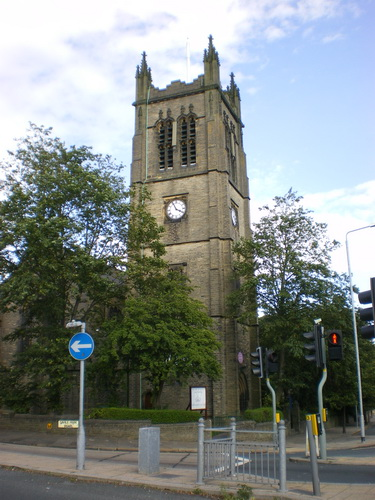 The Parish Church of St Jude, Halifax